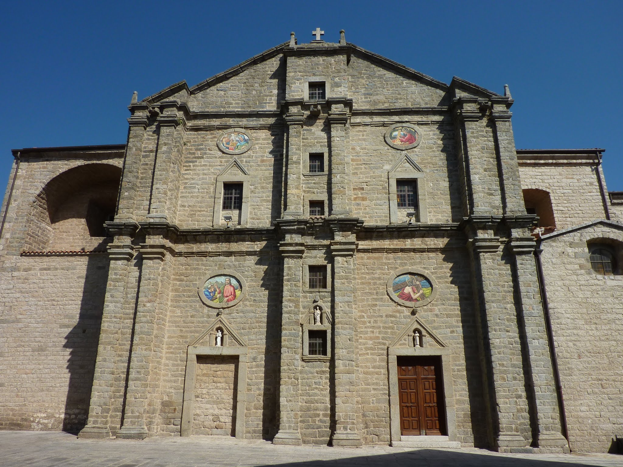 The cathedral San Pietro of Tempio Pausania